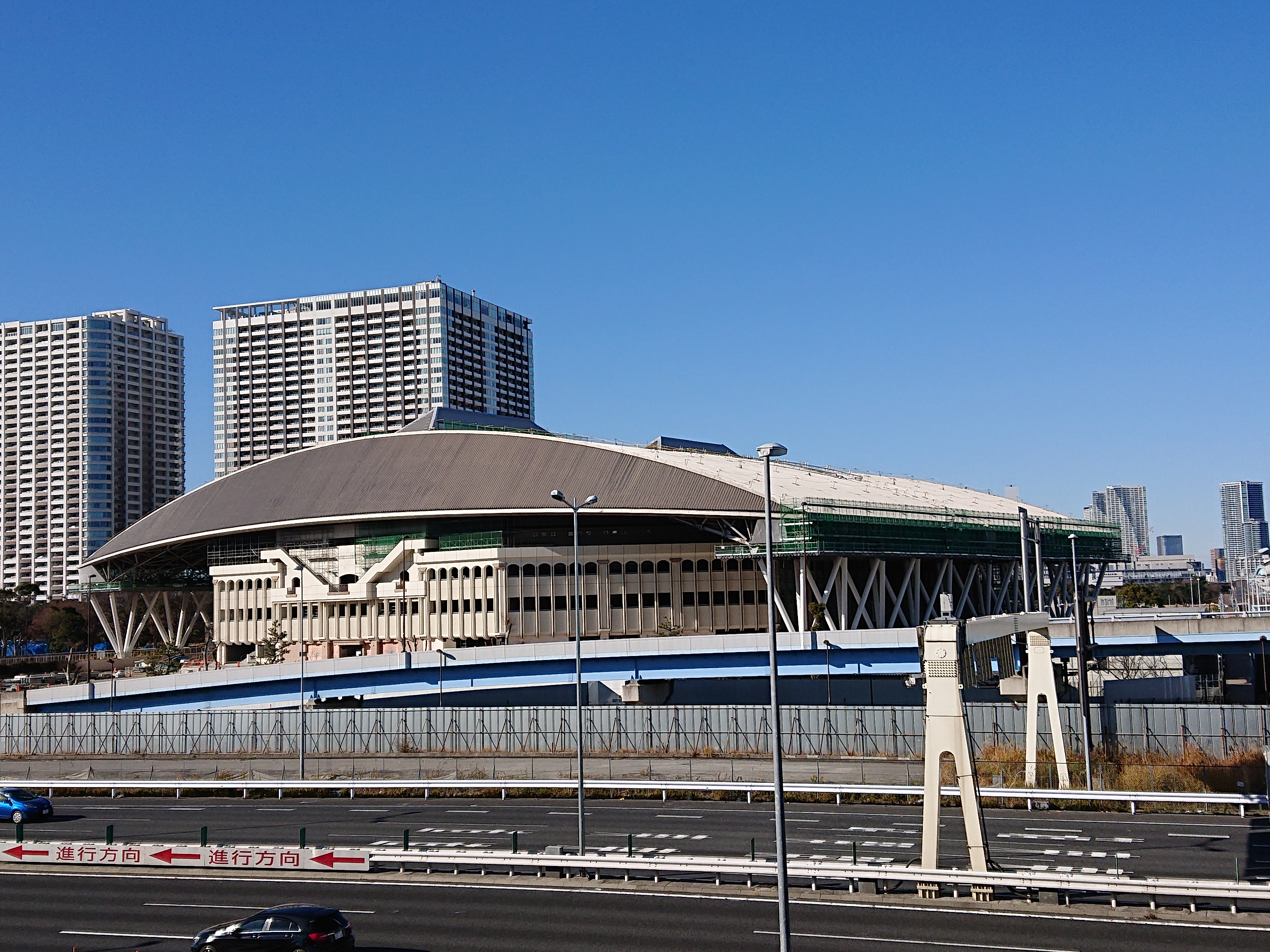 Ariake Coliseum (有明コロシアム), located at ２2-2-22 Ariake, Koto, Tokyo, Japan